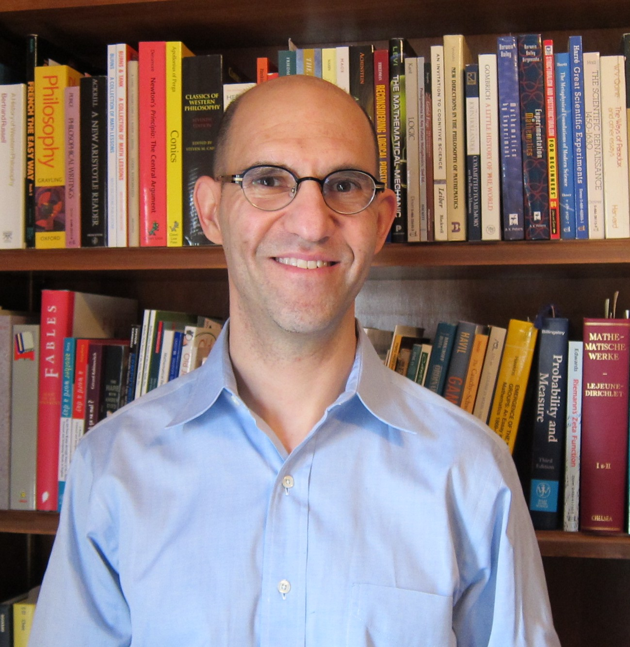 Photo of Jeremy Avigad, March 2013